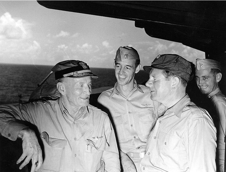 Vice Admiral John S. McCain, Sr., Commander, Task Force 38, (left) with John L. Sullivan, Assistant Secretary of the Navy for Air on board the aircraft carrier USS Shangri-La (CV-38), during Sullivan's visit to combat force in the western Pacific, July 1945.